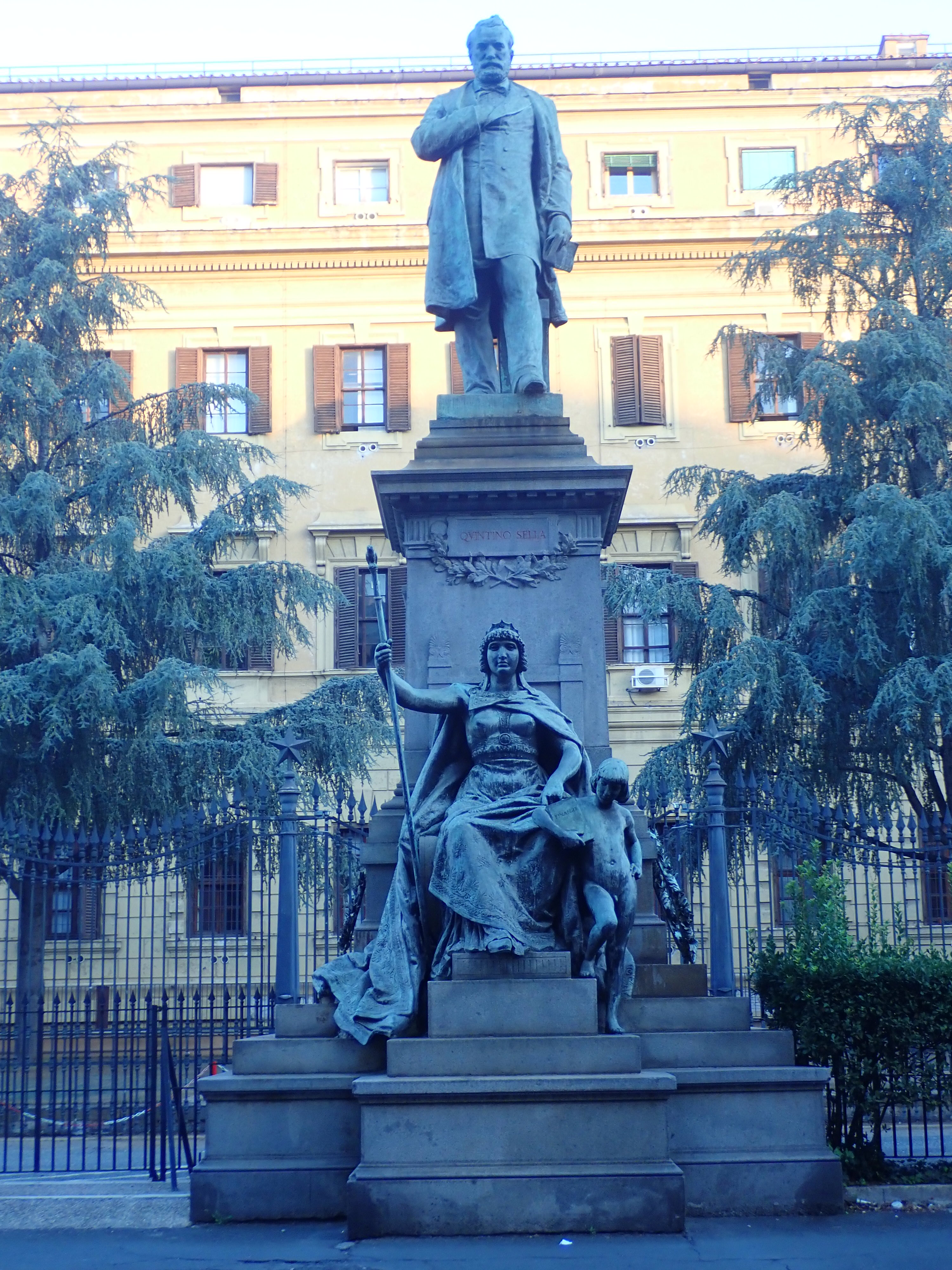 Statue in Rome